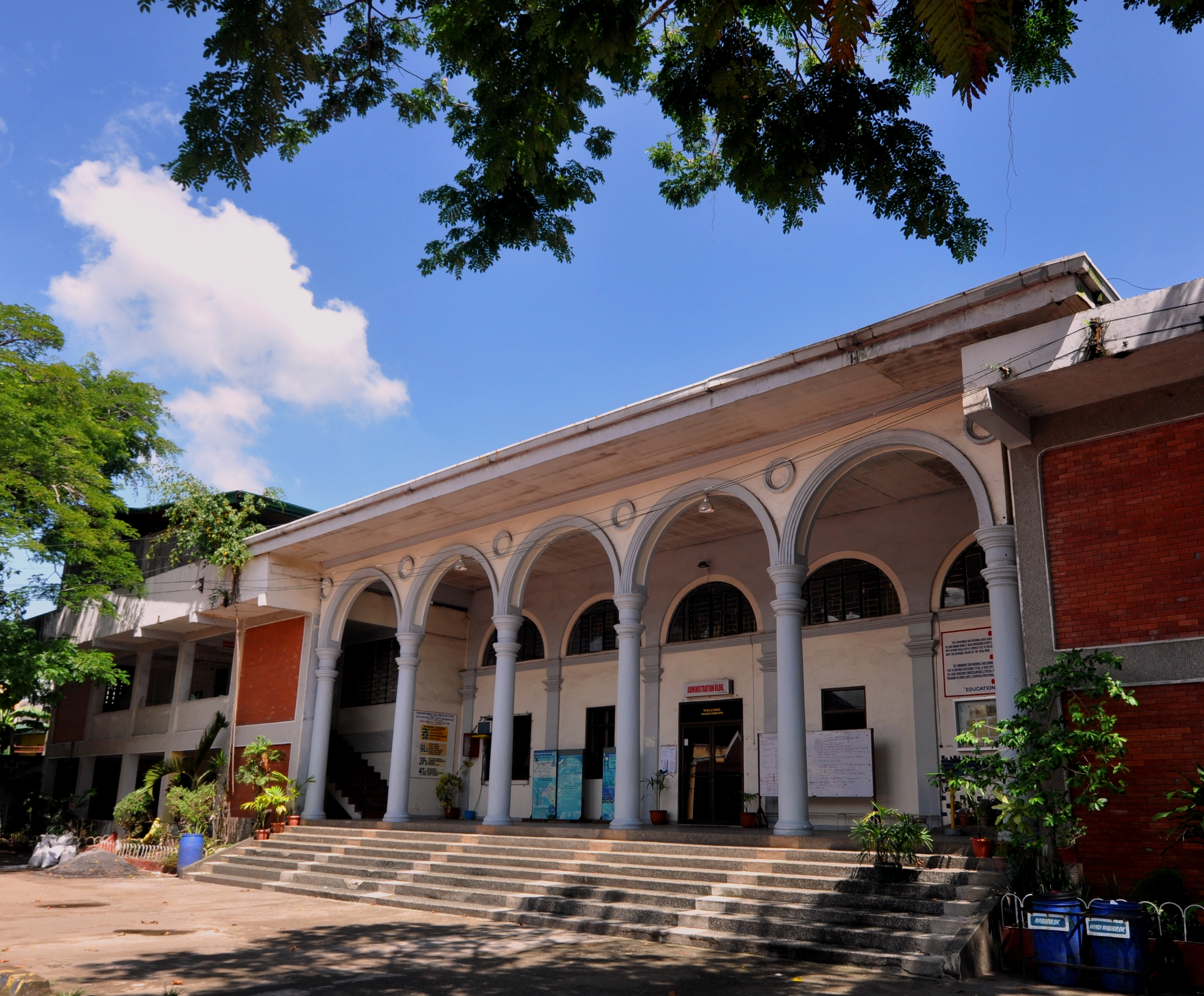 Camarines Sur National High School Gabaldon House Italianate Style